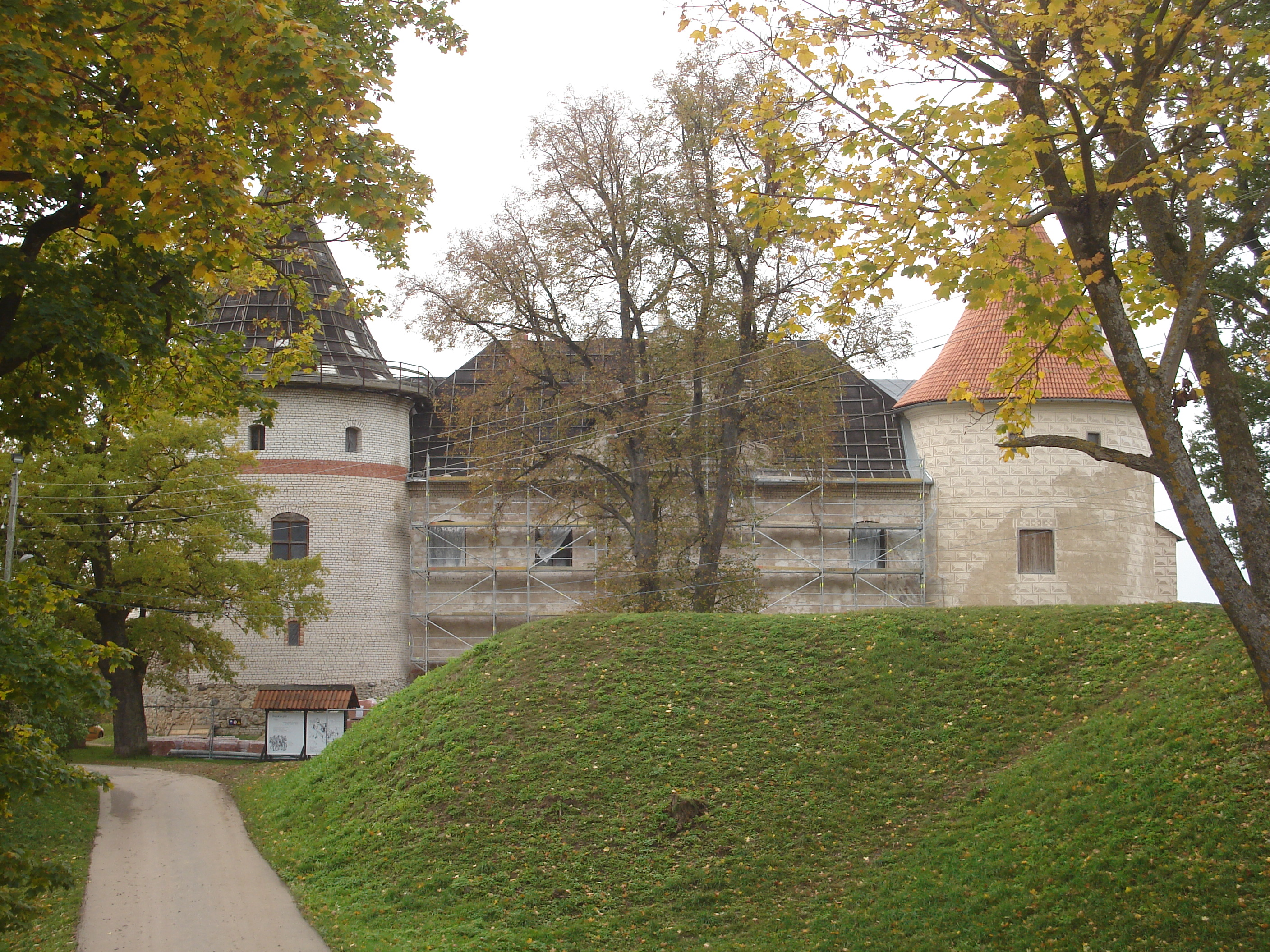 Picture of Bauska Castle